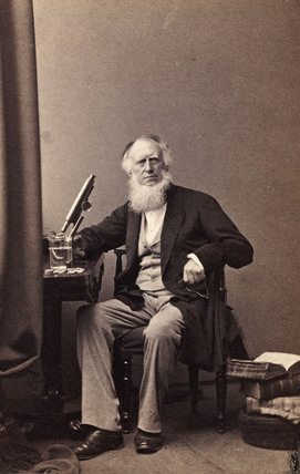 Robert Kaye Greville (born December 13, 1794 in Bishop Auckland, Durham; died June 4, 1866 in Murrayfield) was a Scottish mycologist, bryologist, and botanist.